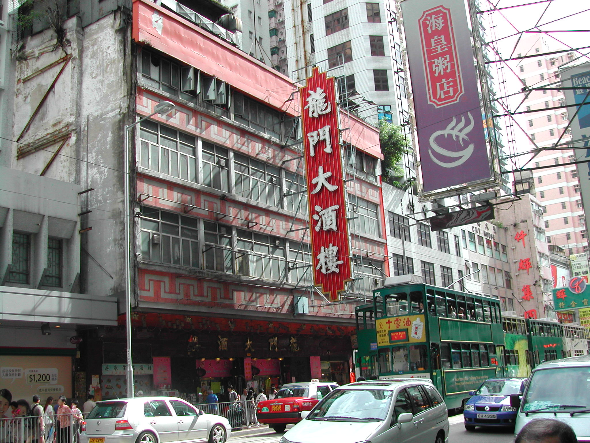 Lung Mun, an old-styled restaurant in Wan Chai, Hong Kong